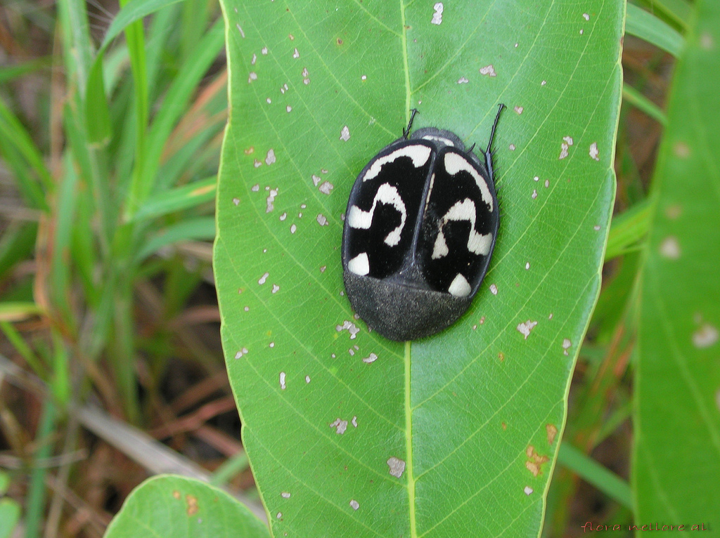 Therea sp. det. F, Vitali, Photographed at Eastren ghats under the forest cover. T. olegrandjeani (Location deduced from another photo: Nellore or Krishnapatnam ? )